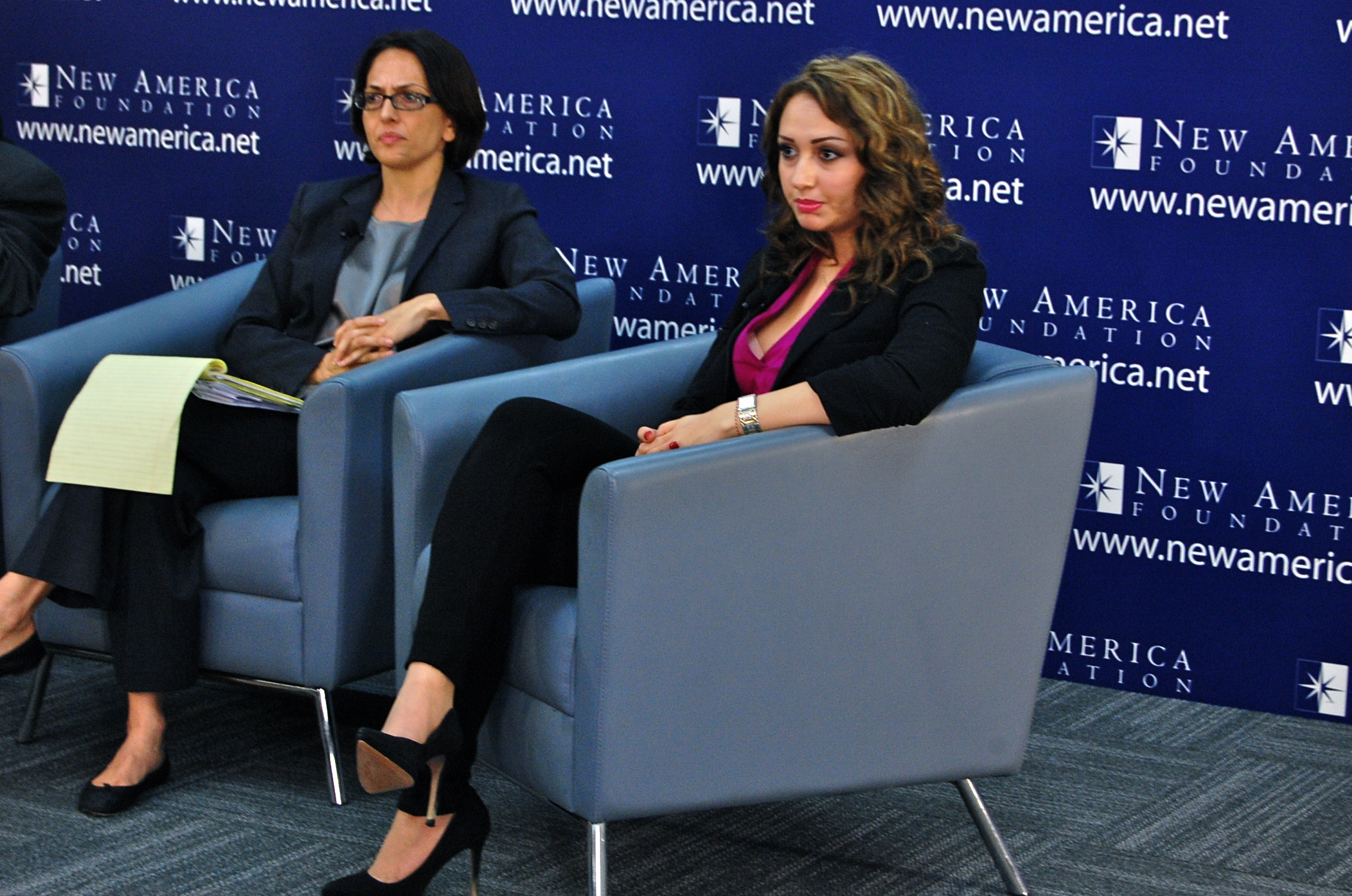 Leila Hilal and Hadeel Kouki at a July 24, 2012 event hosted by New America, "Bearing Witness to Syria's Tragedies"